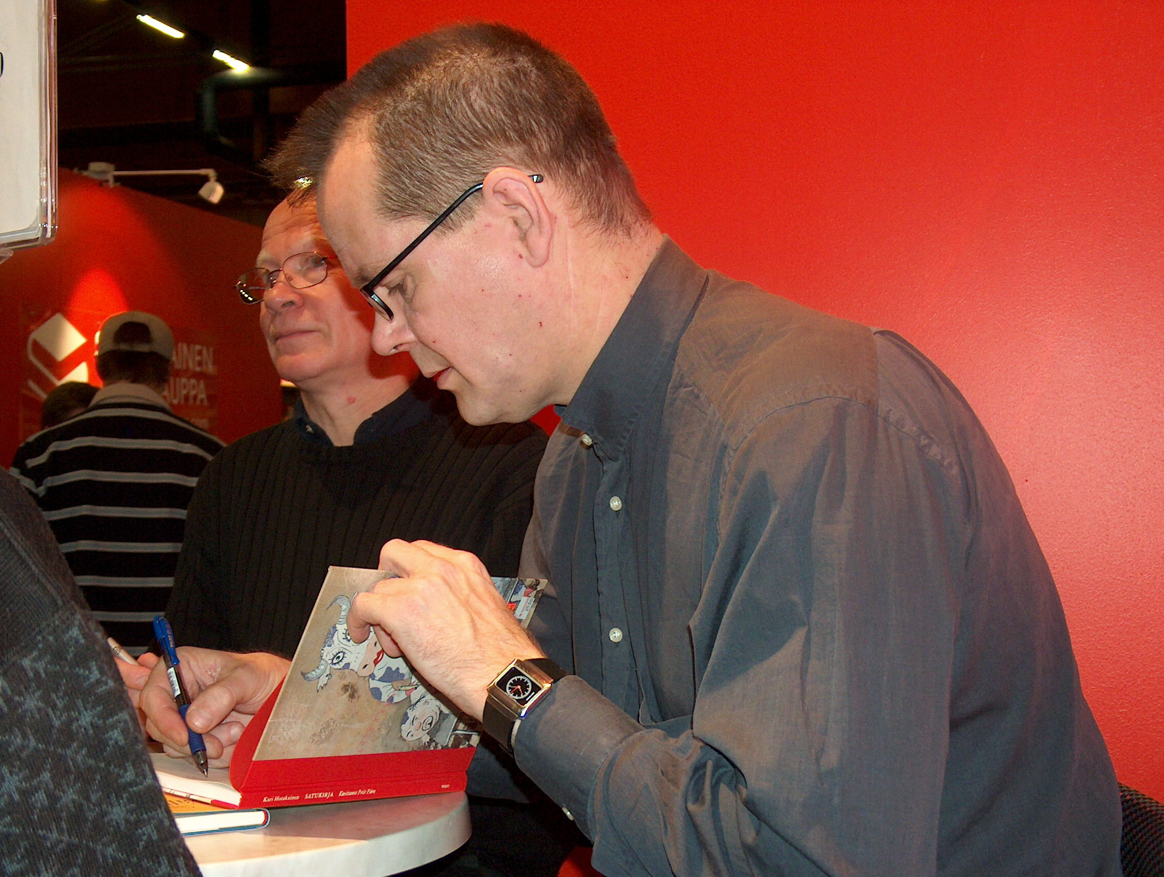 Kari Hotakainen signing books at the Helsinki Book Fair in 2004